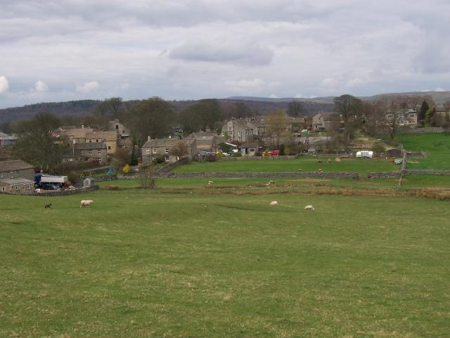 Threshfield